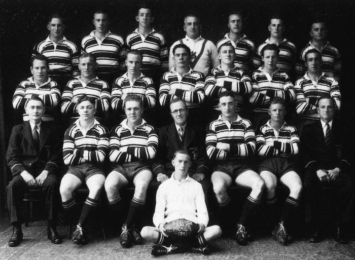 Photograph of the w:1941 NSWRFL season's premiership-winning team, St. George DRLFC.